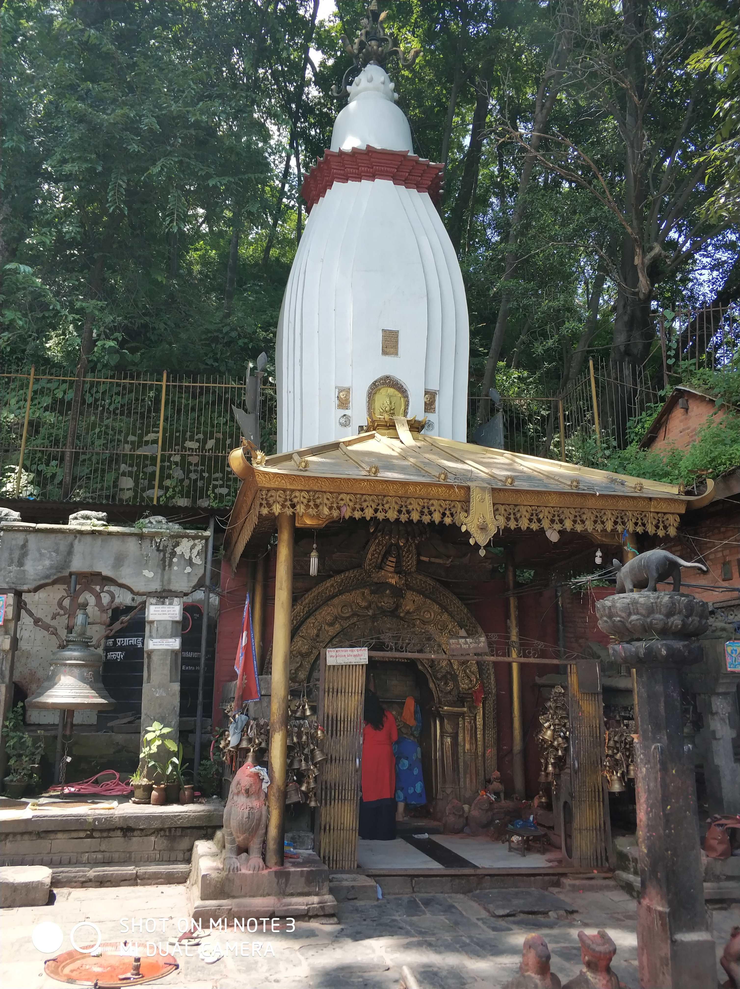 Suryavinayak Temple is a Hindu Temple in Nepal, which is located in Bhaktapur district, Nepal. The temple is dedicated to the Hindu god Ganesh. The temple is an historical and cultural monument and tourist centre also.